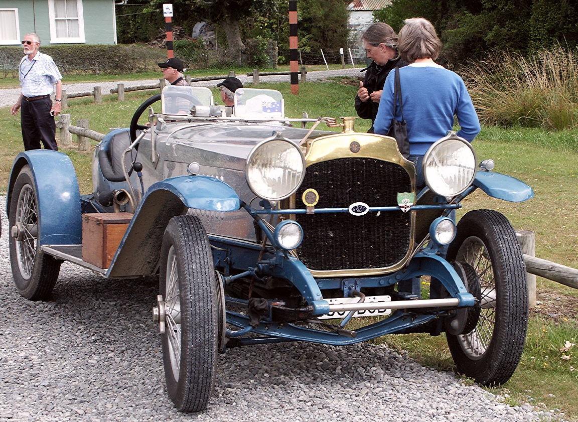 1914 Vauxhall 16-20 2-seater